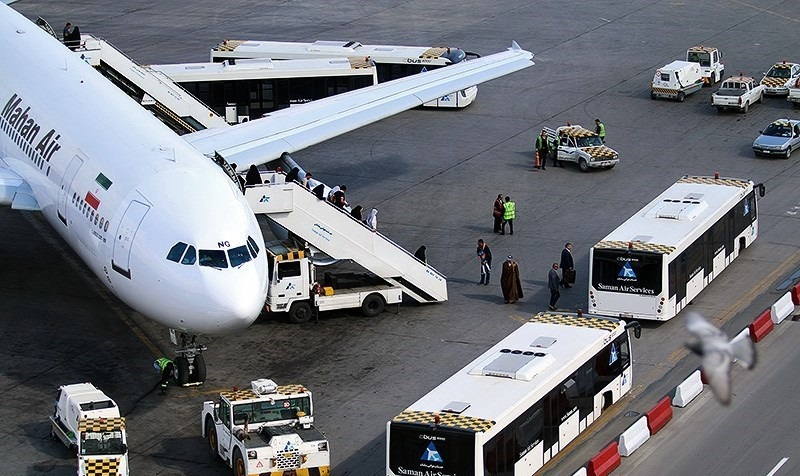 Shahid Hashemi Nejad Airport